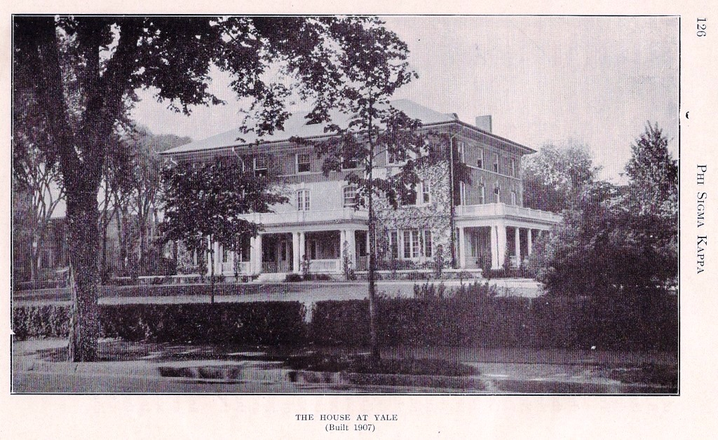 Epsilon chapter, also known as Sachem Hall, of Phi Sigma Kappa fraternity, at Yale University, built in 1907, in a low-res photo for release to Wikipedia and elsewhere. This building was located at 124 Prospect Street, New Haven, Connecticut.